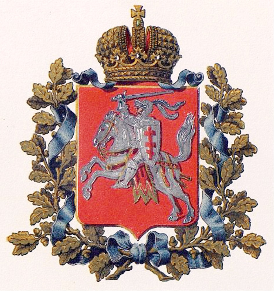 Official Russian Empire coat of arms Vilno Governorate